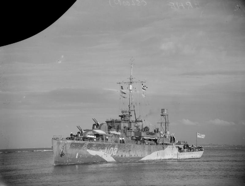 British Black Swan class sloop HMS ERNE arrives at Algiers as part of a troop convoy.